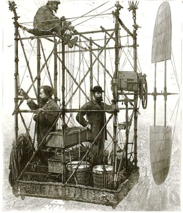 Photograph of Albert Tissandier, left, Gaston Tissandier and a third unidentified man. 1890s Public Domain, created circa 1890